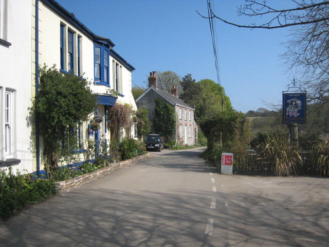 The King's Arms Ruan Lanihorne